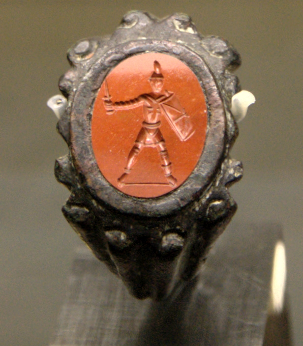 Ring with gladiator. Bronze and red jasper, Roman art, 3rd century CE.